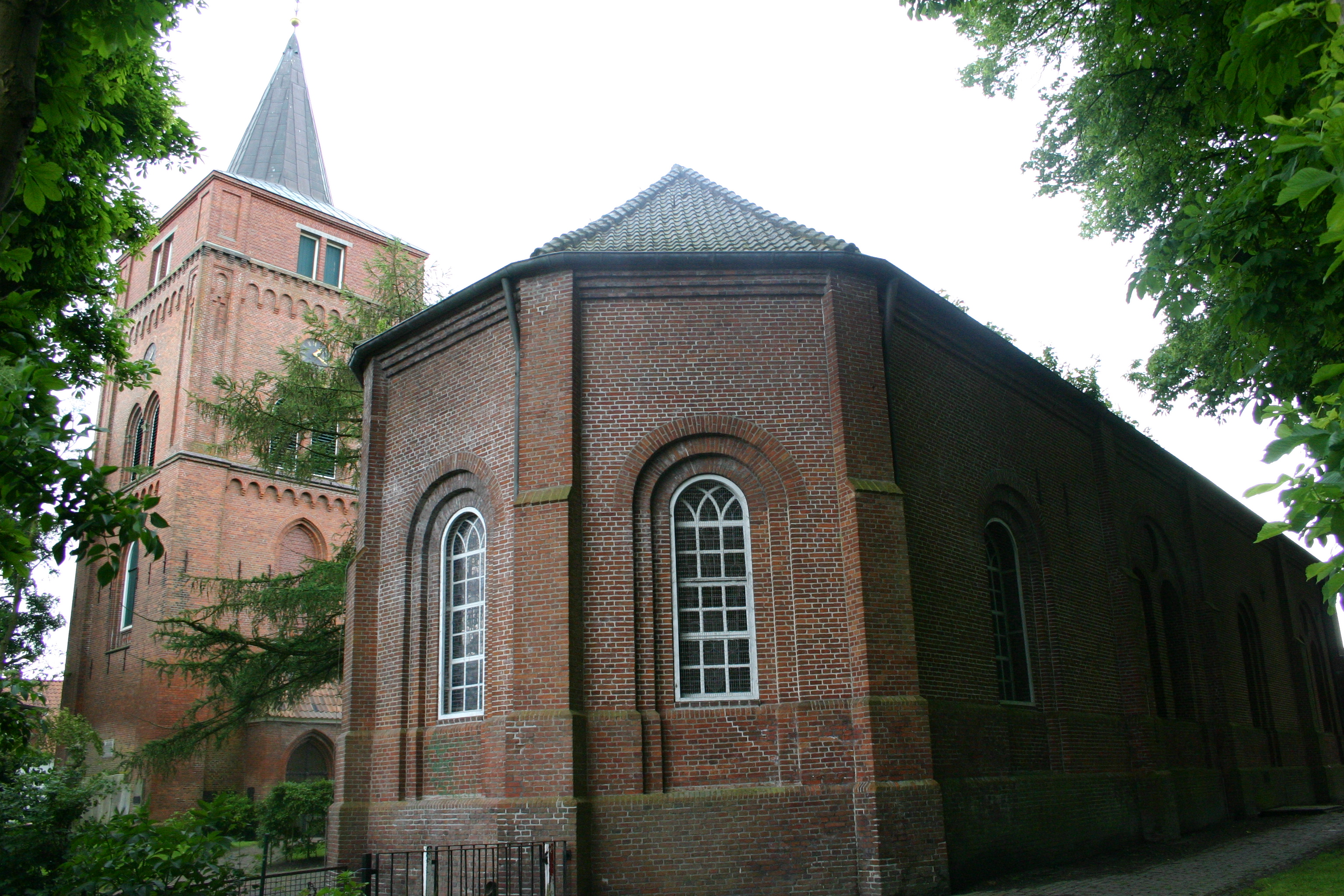 Historic church in Pewsum, district of Aurich, East Frisia, Germany